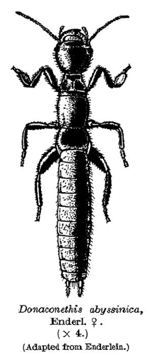 Donaconethis abyssinica female, Embioptera